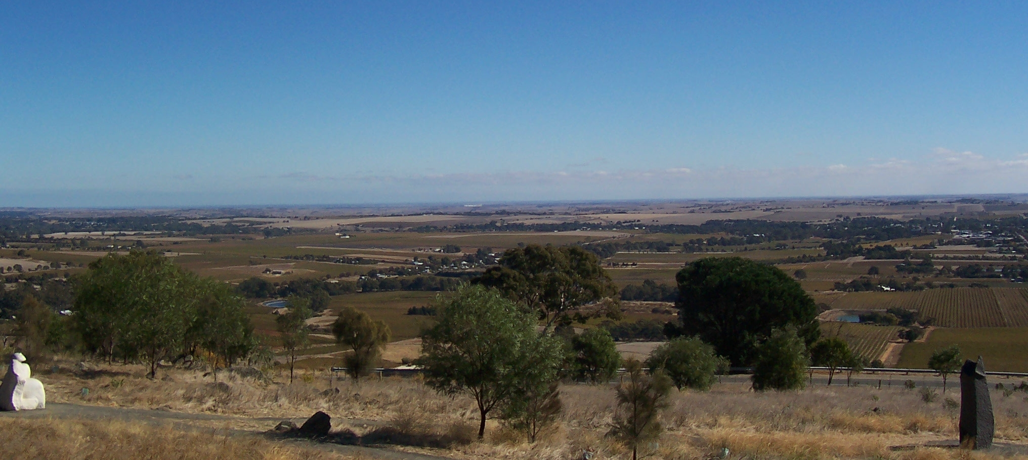 The historic village of Bethany in the Barossa Valley, viewed from Mengler's Hill Source: Scott Davis - photographer